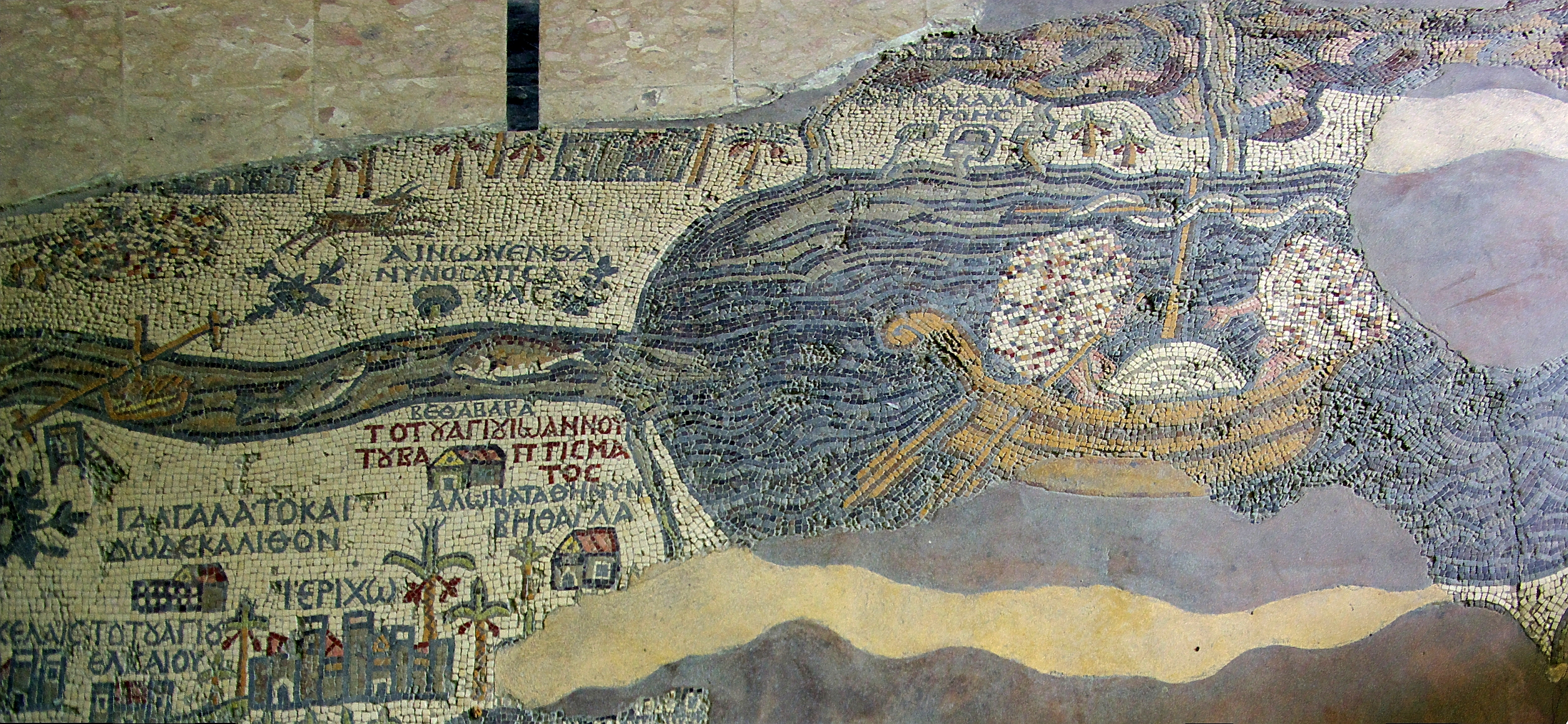 Rectified detail of "Madaba BW 9.JPG": Dead Sea on the Madaba Map. Left-hand side: River Jordan.